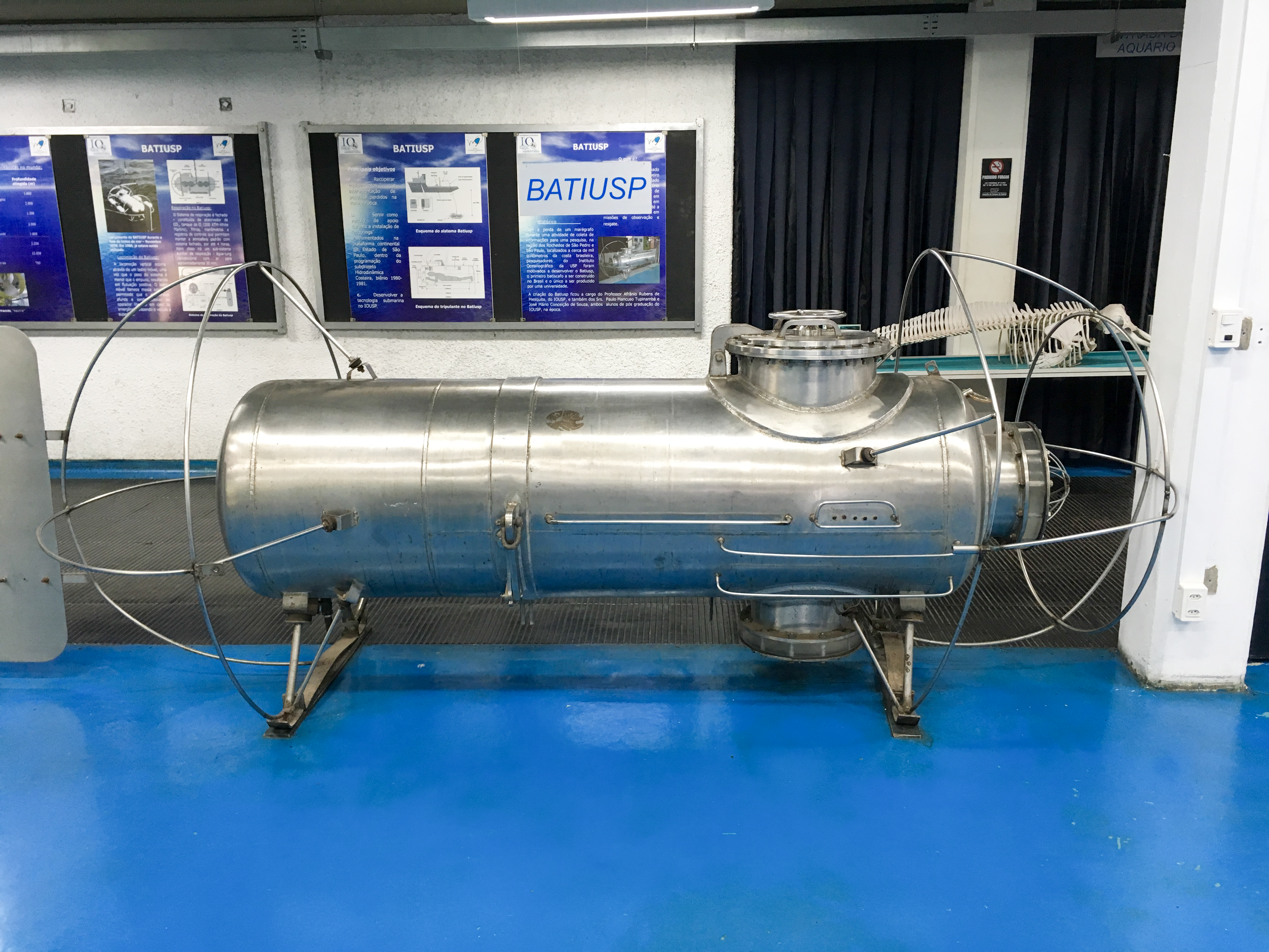 Museu Oceanográfico, University of São Paulo, Brazil. BATIUSP